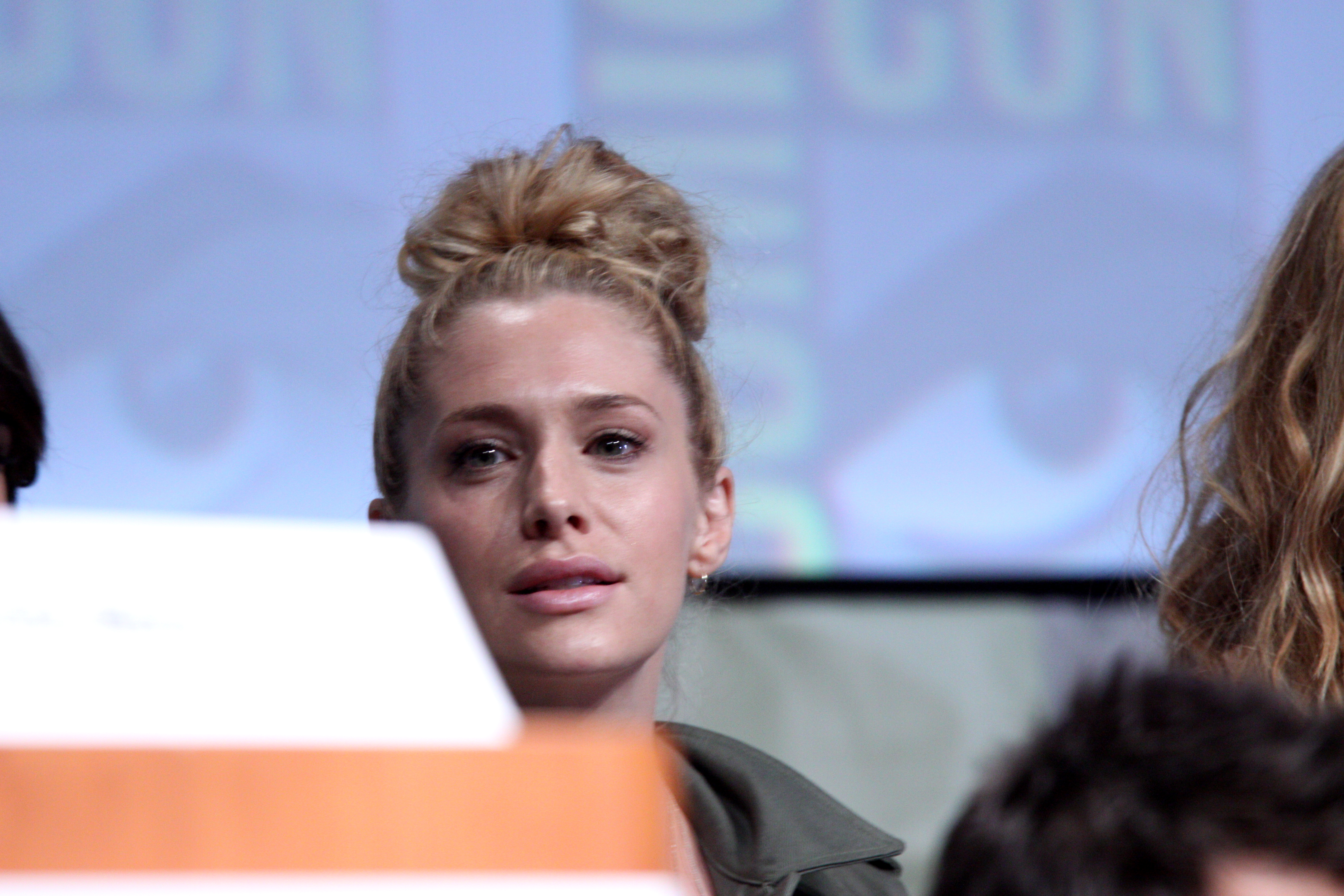 Casey Labow speaking at the 2012 San Diego Comic-Con International in San Diego, California.